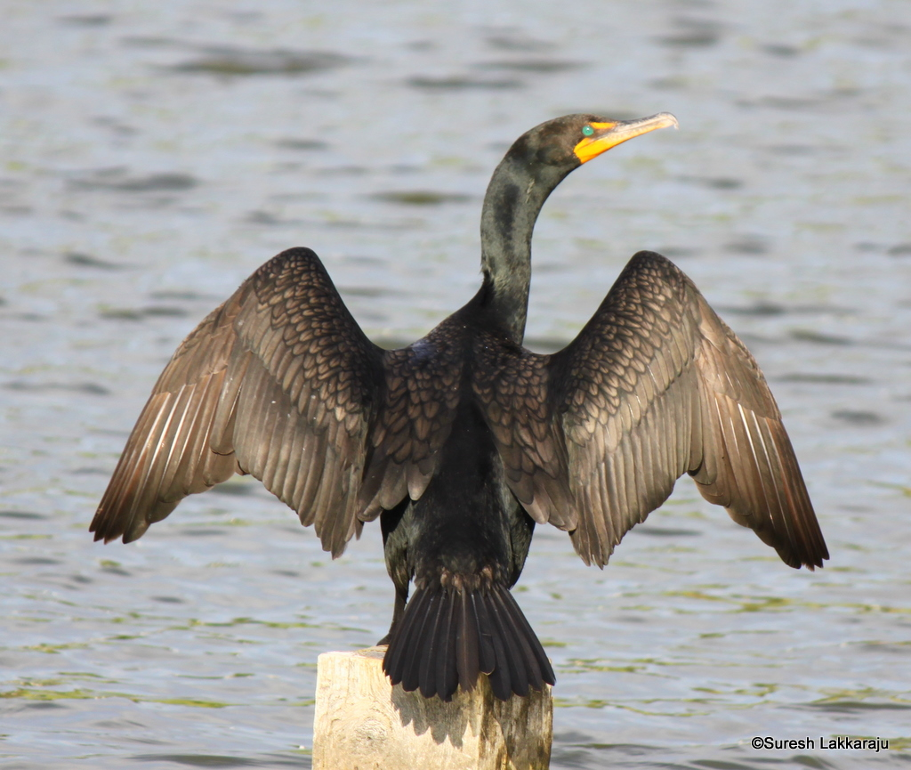 Cormorant drying its feathers. Its like taking Sun Bath.